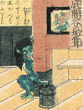 Akaname (垢嘗, the spirit who licks the bathroom) from the Mukashi banashi bakemono sugoroku (百種怪談妖物雙六)